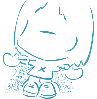 Xavier, the leading character from the cast of the Positives